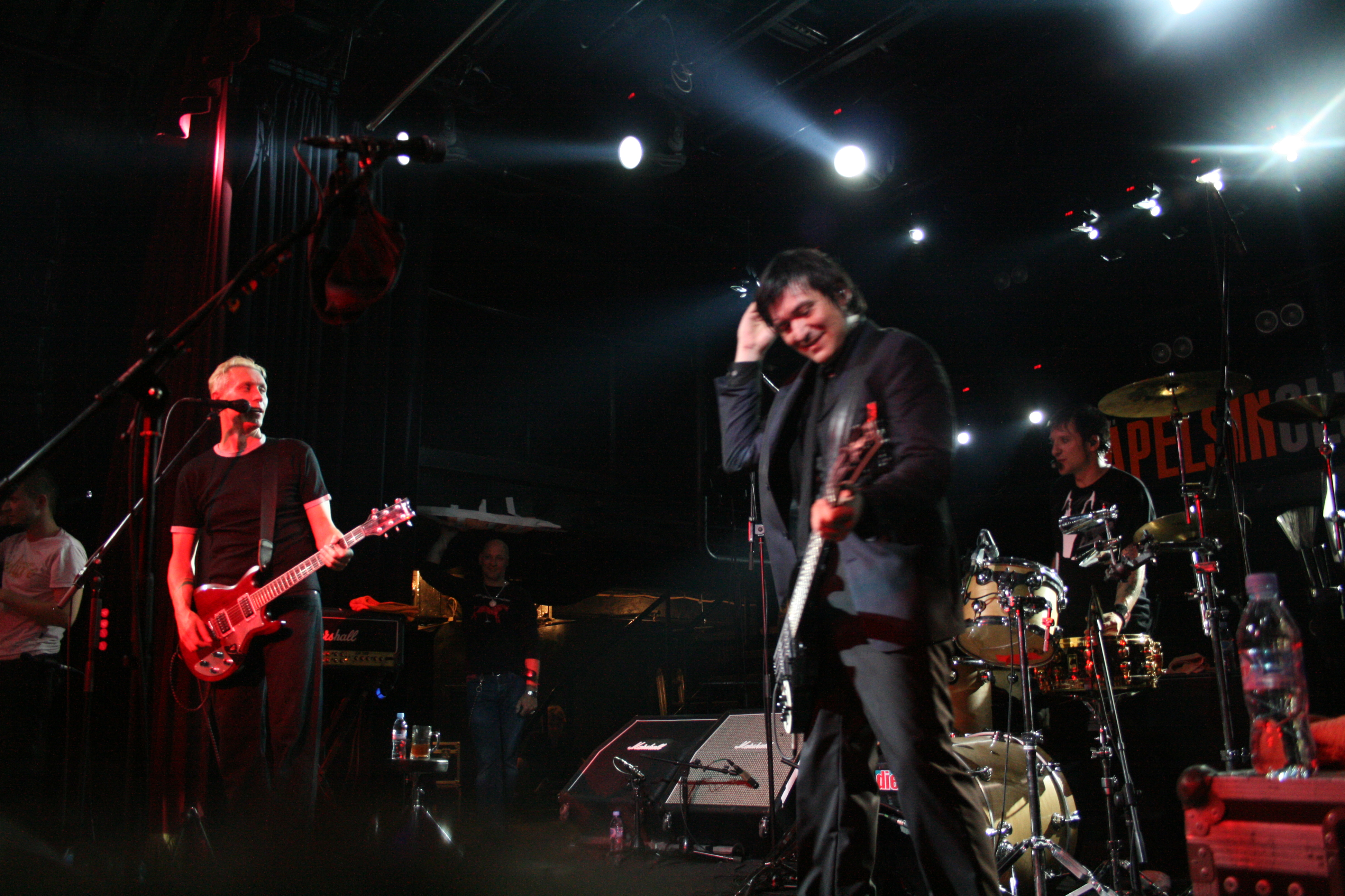 DIE ÄRZTE in Moscow (Apelsin club) 17.05.2008